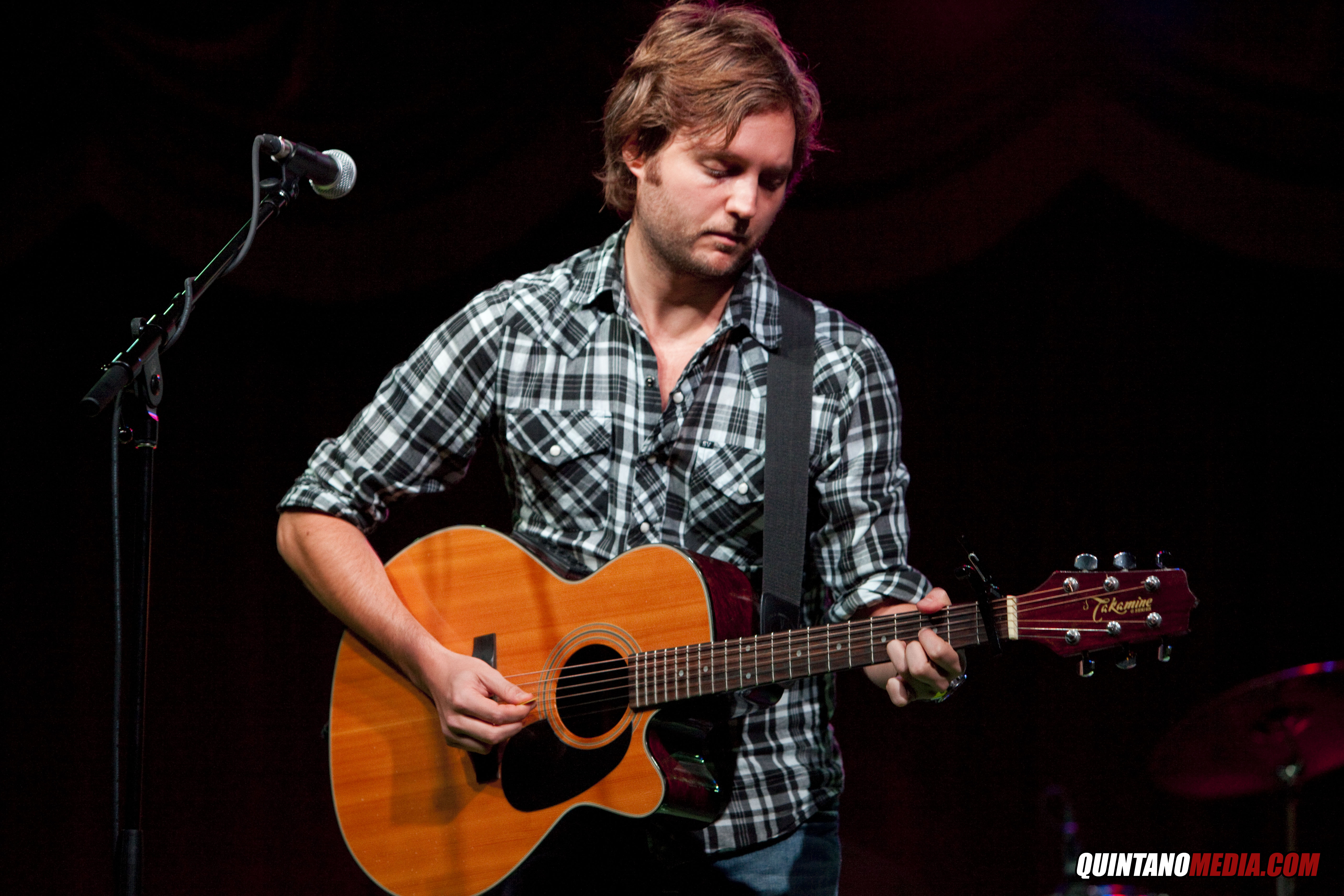 NICK HOWARD TWESTIVAL NYC 2009 Photographed by: Anthony Quintano